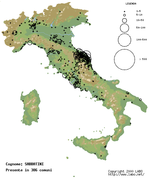 A map of Italy with the geographical distribution of Sabbatini family surnames. Produced automatically by Gens mapping software, uploaded by Renato M.E. Sabbatini.